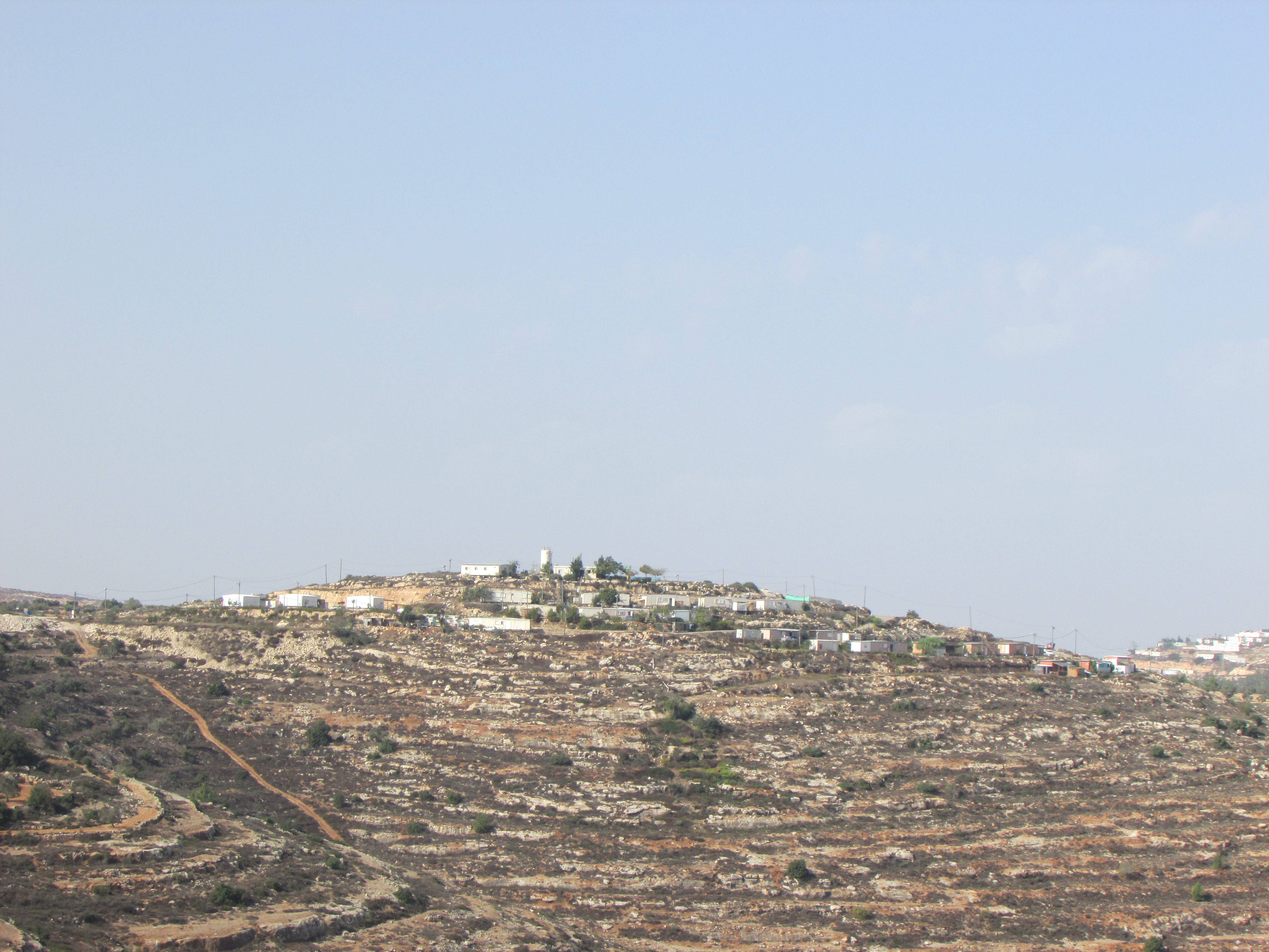 Givat Haroeh from Givat Harel